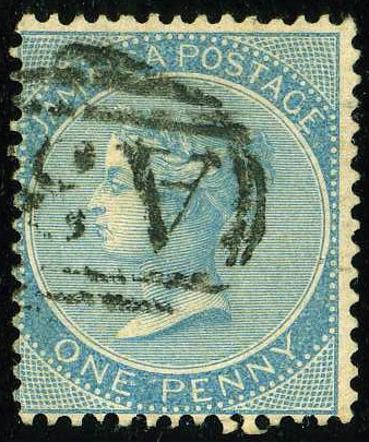 1 penny Jamaica first issue, 1860. Oval cancel. SG N°1.